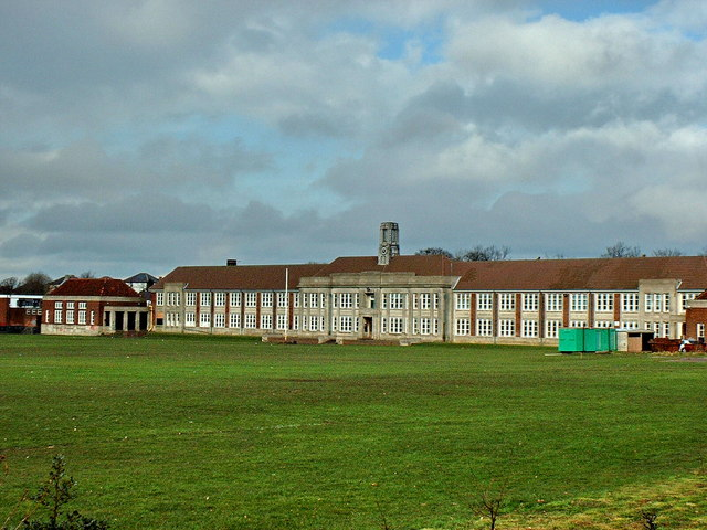 High Storrs School. High Storrs Secondary School, viewed from Ringinglow Road. The building is designated as a Grade 2 Listed Building and has many original features of Art Deco Style.